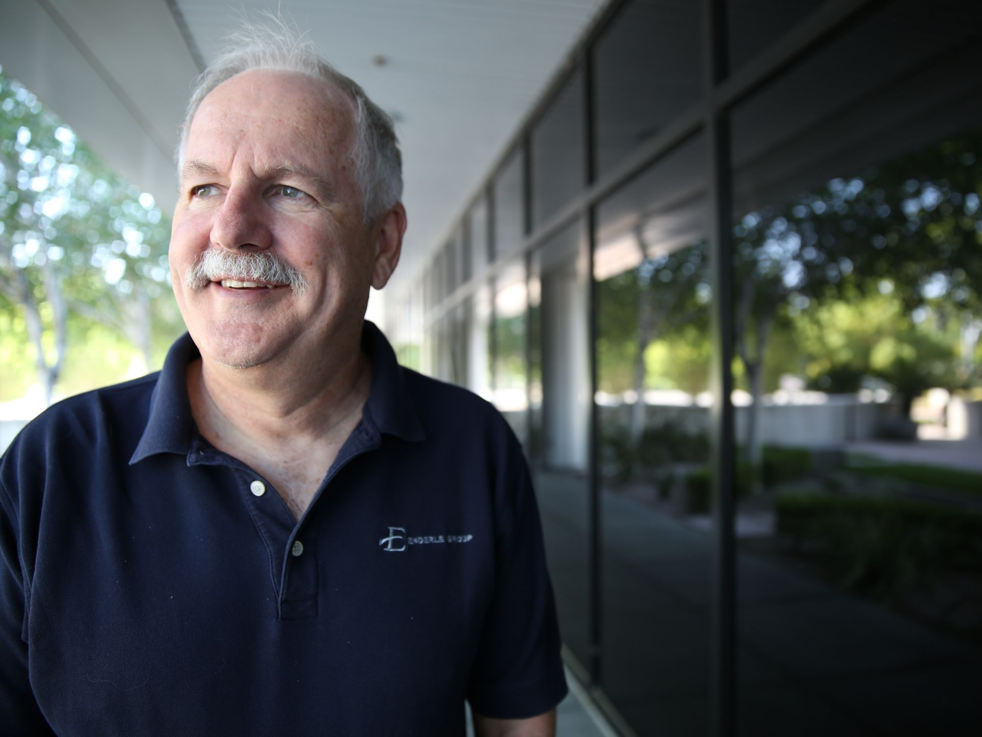 "Today, line managers make the decisions as opposed to IT guys with regard to the technology that the user uses, and users have a great deal to say about the technology that drives line manager decisions," said Rob Enderle, principal analyst at Enderle Group. See more: BYOD Tablets Disrupt Enterprise IT? Business managers dictating device decisions, flood of tablets force rethinking of IT say analysts. Spending on information technology is projected to decline overall this year, but tablet buyers are forecast to buck that trend and drop $23 billion more on the devices than last year. Many of those tablets will inevitably find their way into the enterprise on a BYOD basis, further eroding IT department control over employee devices according to industry analysts.